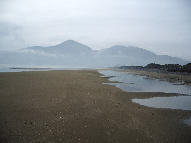 The Mourne Mountains from Newcastle beach.